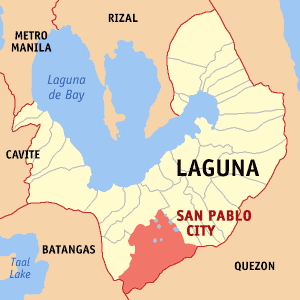 Locator map of San Pablo in Laguna, Philippines.